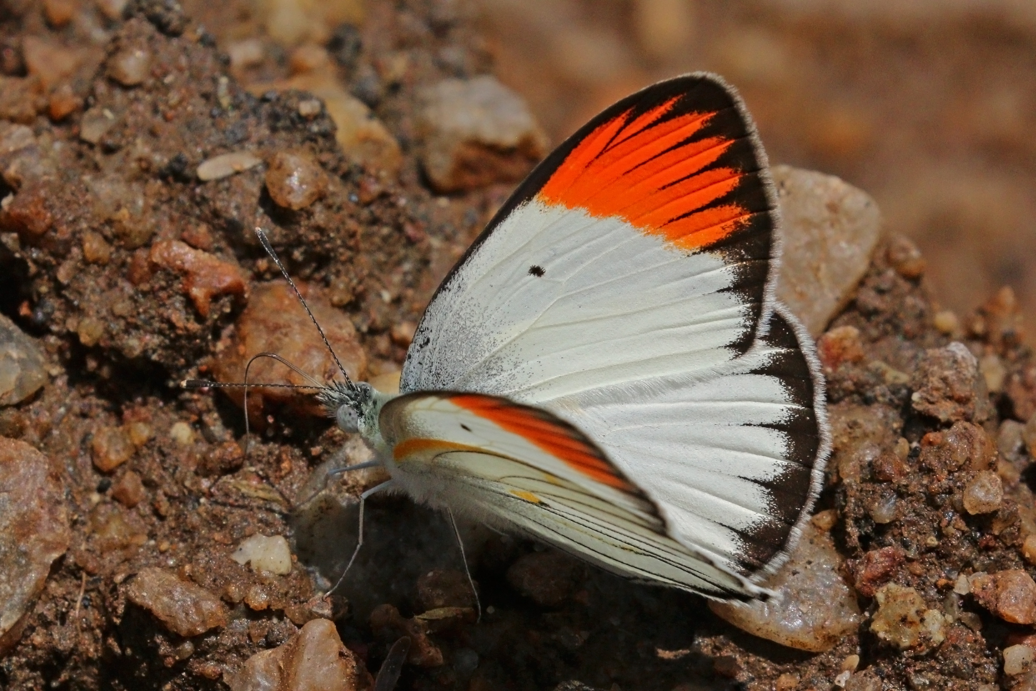 Large orange tip (Colotis antevippe exole) male, Semuliki Wildlife Reserve, Uganda